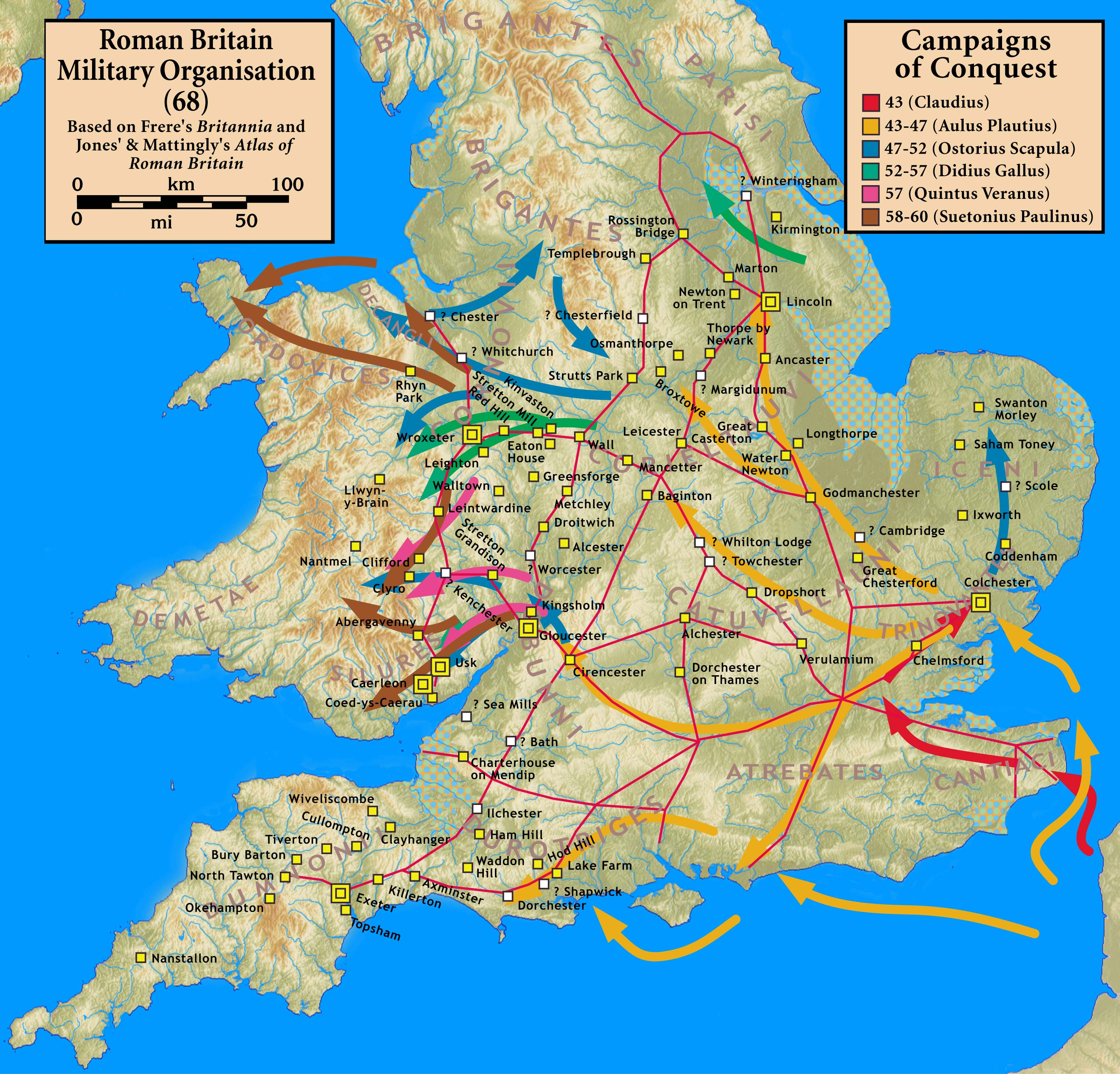 Campaigns in the Roman Conquest of Britain, 43 — 60; and showing Roman military organisation in 68